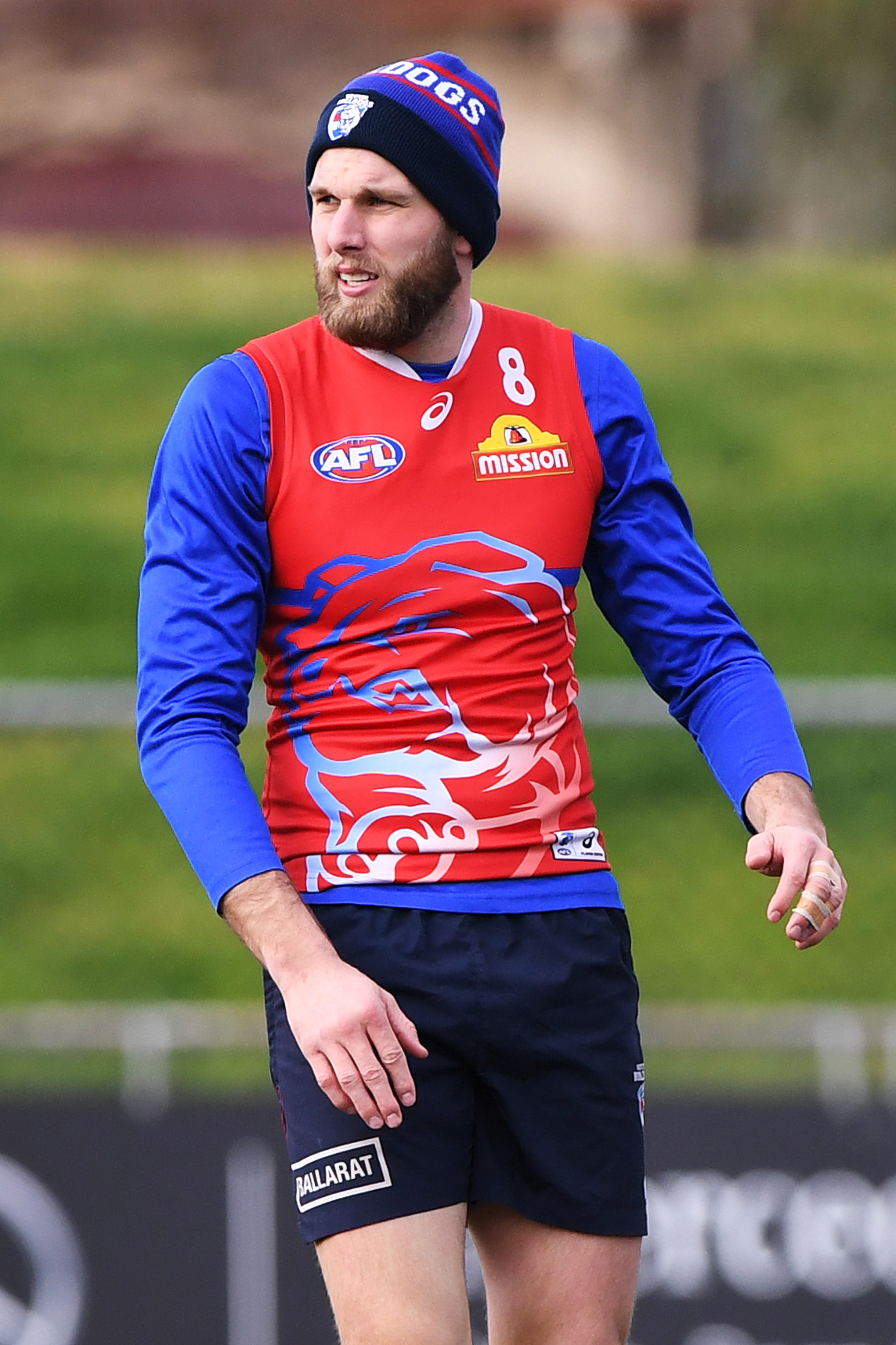 Jackson Trengove of the Western Bulldogs during Western Bulldogs training on 7 August 2018 at Whitten Oval in Melbourne, Victoria.